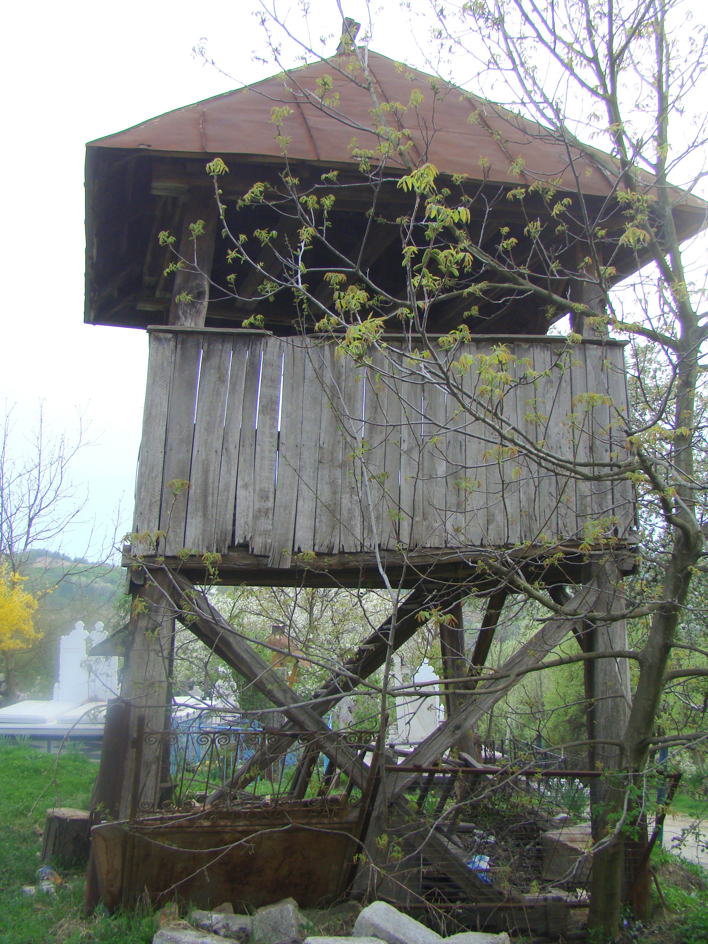 Wooden church in Miculești, Gorj county, Romania